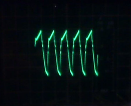 Klon centaur output signal around 3.5V